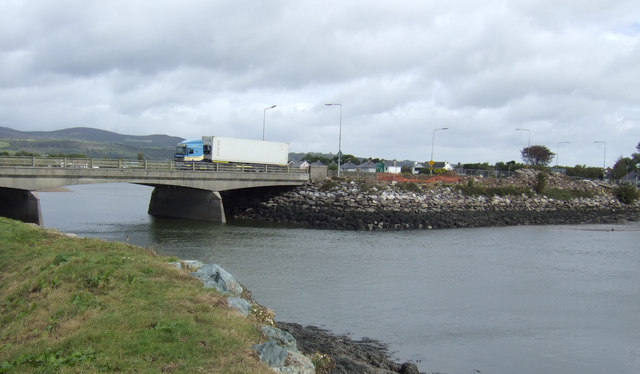 Dungarvan by-pass The N25 crosses the Colligan River here and avoids the bottleneck of Dungarvan town centre. The Monavullagh Mountains form the backdrop to the scene.